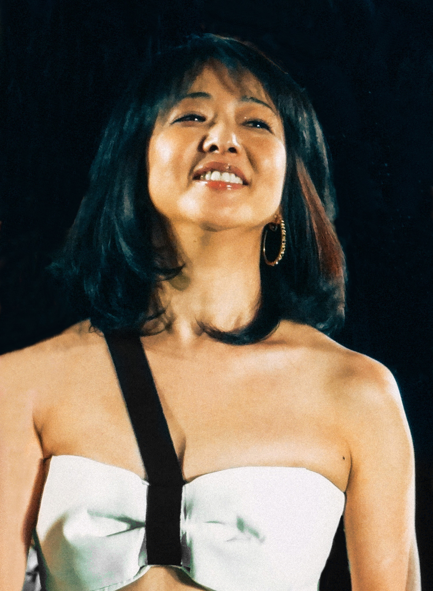 26th Tokyo International Film Festival: Jun Miho from Disregarded People